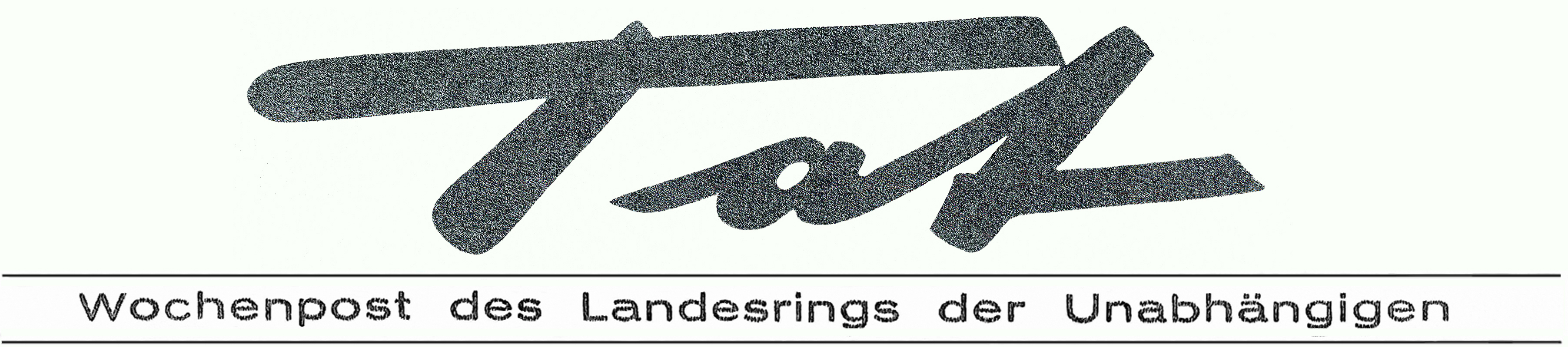 Logo of the former Swiss newspaper Die Tat (1937)